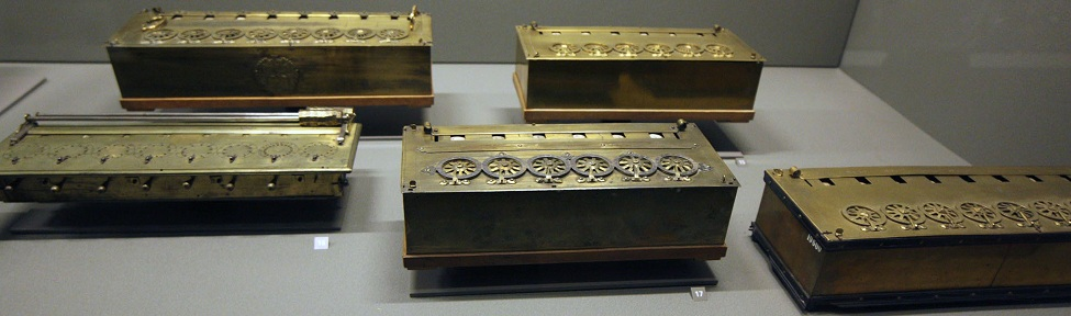 Reduced size of picture by eliminating surrounding. Rotated picture 4 degrees.